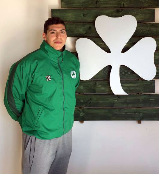 Greek javelin thrower Paraskevas Batzavalis posing with the colours of his club, Panathinaikos.